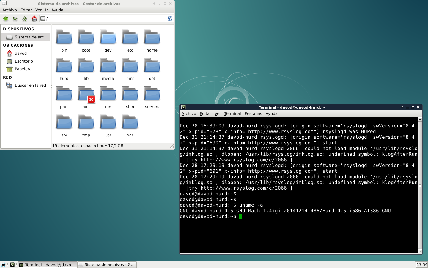 xfce4-terminal and Thunar on Xfce4 Desktop Environment under Debian GNU/Hurd, running on VMware Workstation